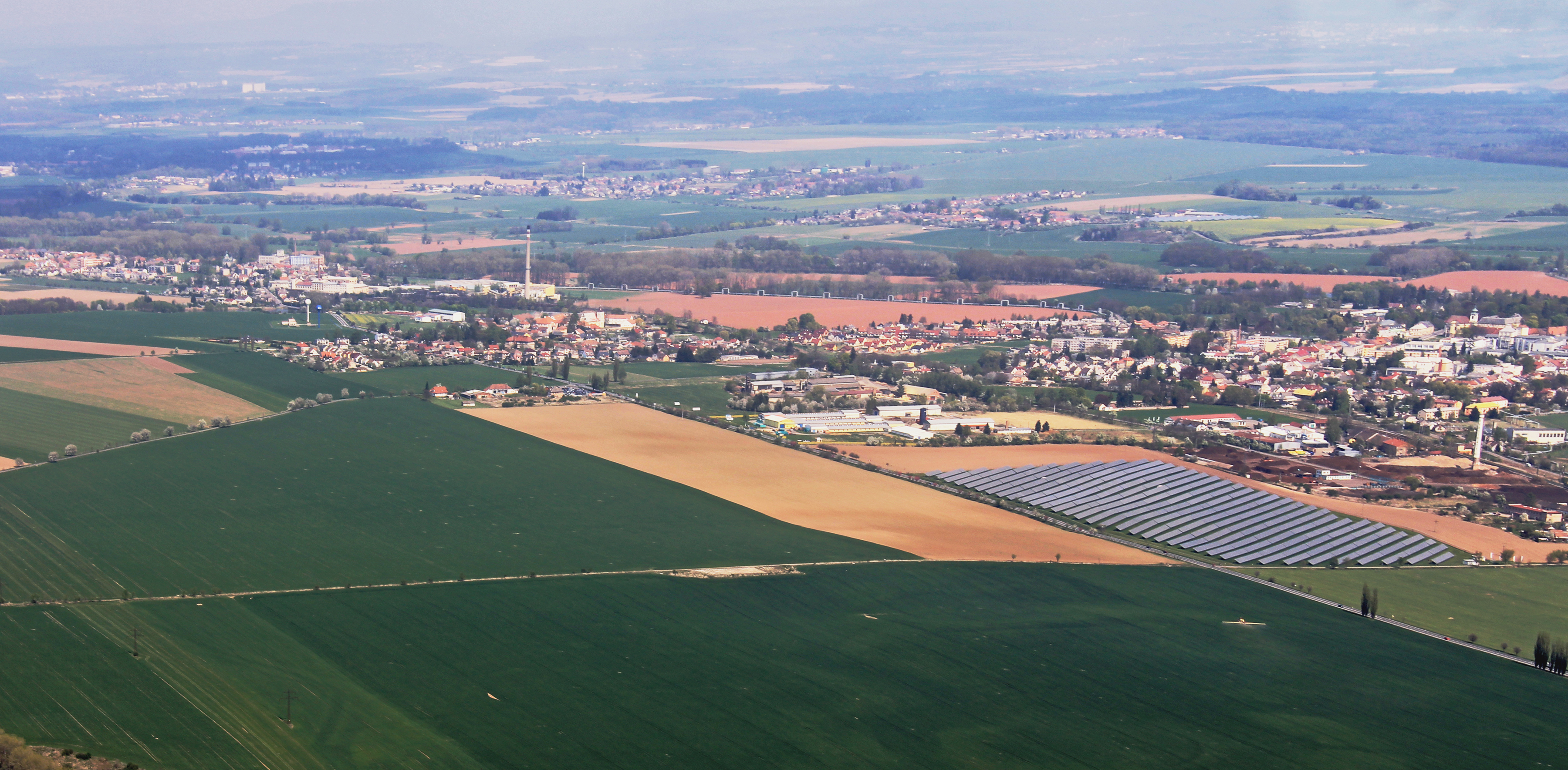 Small town Smiřice and village Černožice from air, eastern Bohemia, Czech Republic